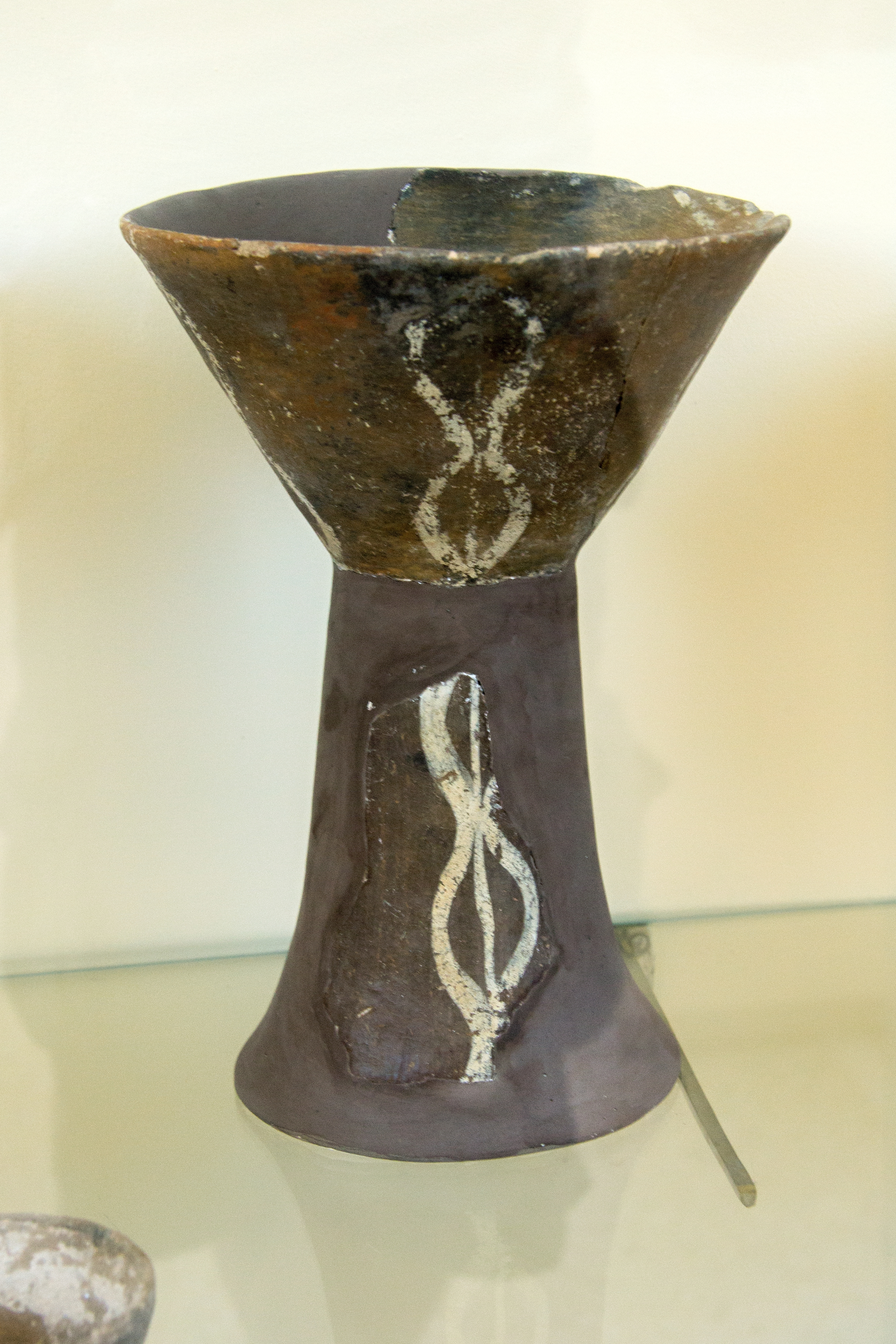 Cycladic Neolithic pottery, high container with painted decoration, 4th millennium BC. Find from islet Saliagos (between Paros and Antiparos). Archaeological museum of Paros.